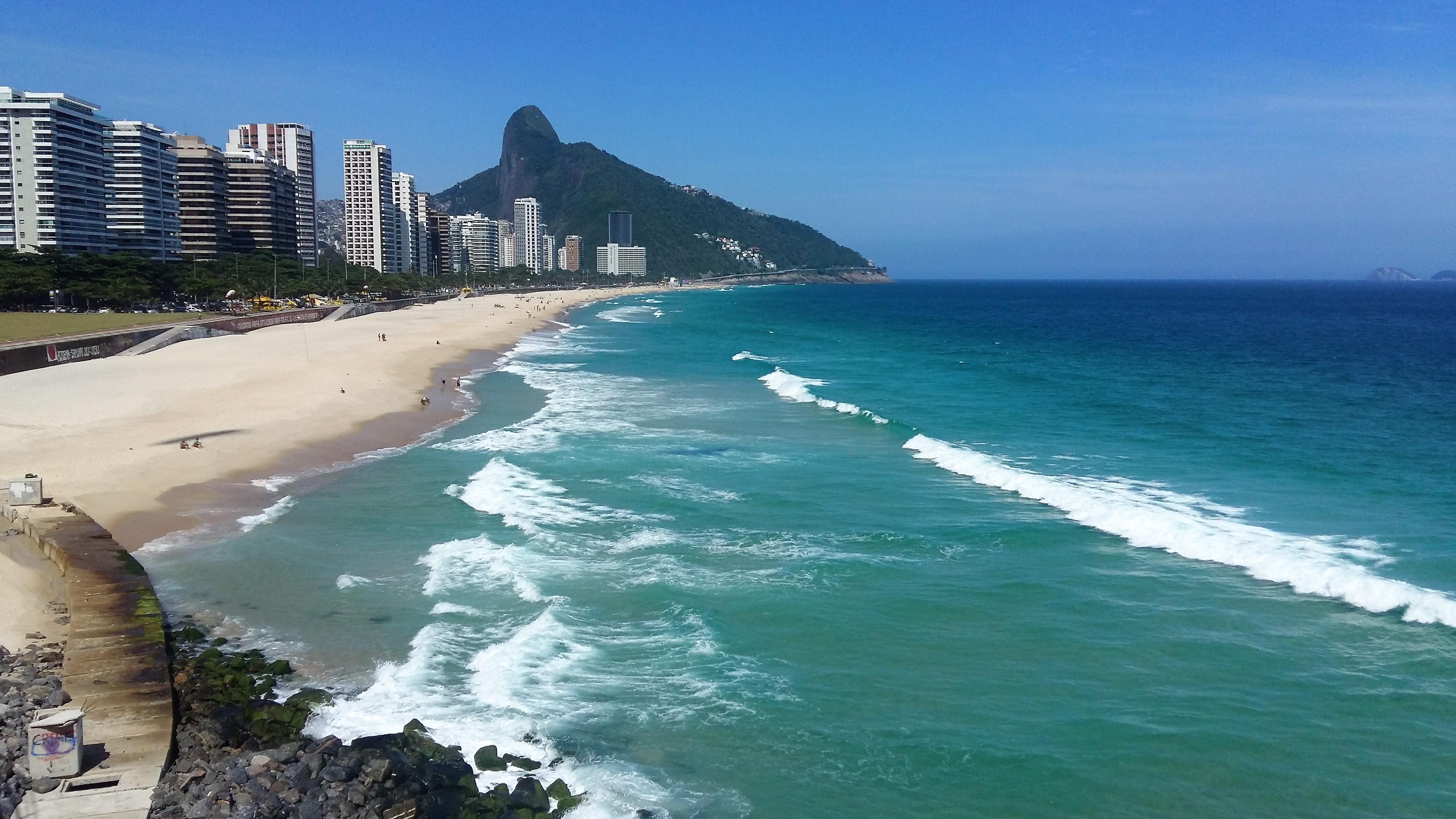 Rio de Janeiro: Beach named Praia de São Conrado and rocky mountain Morro Dois Irmãos at Atlantic Sea, seen from west and from cycling route 'Ciclovia Tim Maia' along the coast. Photo December 2016.